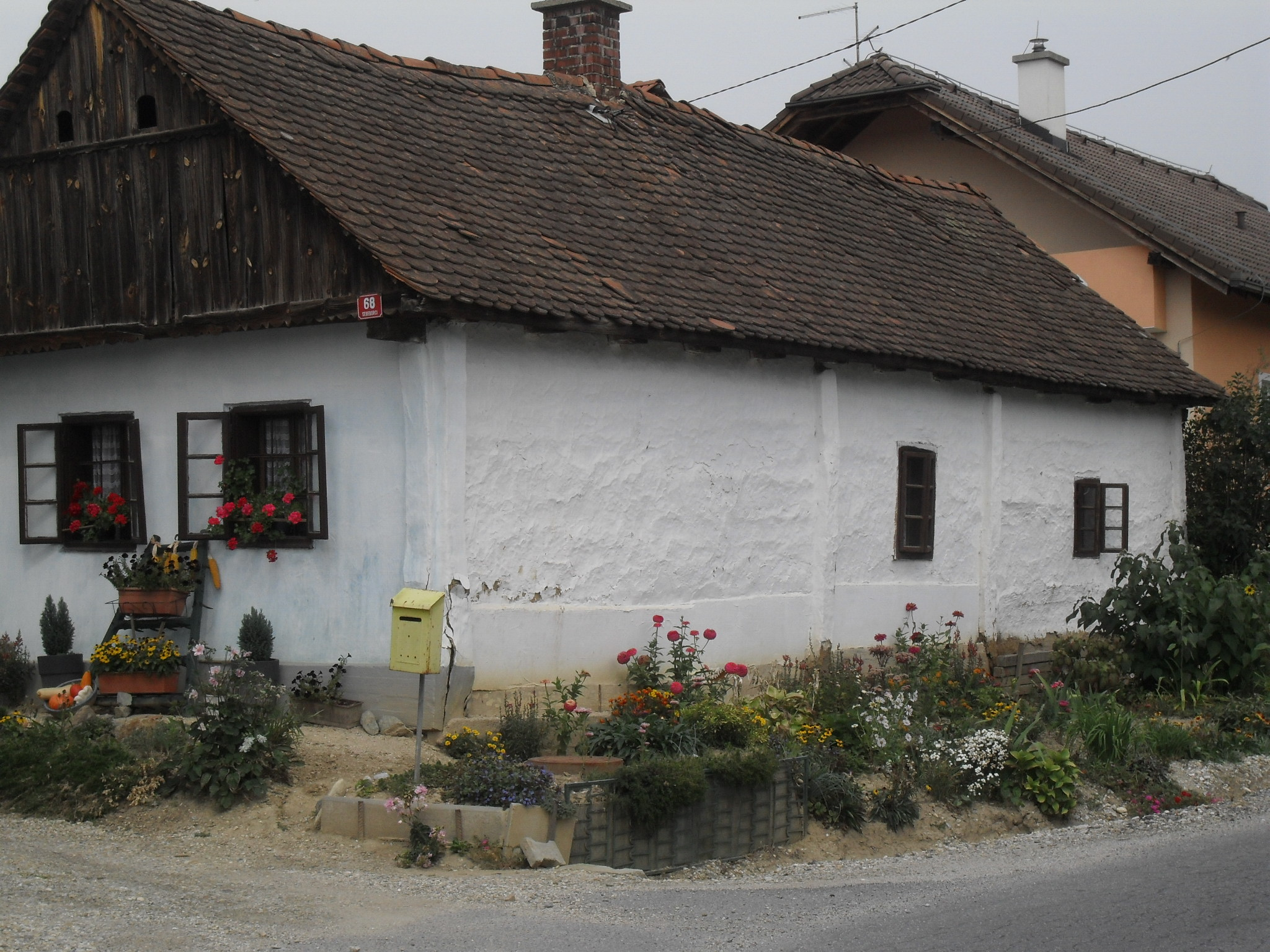 Old peasant house in Sebeborci, Prekmurje